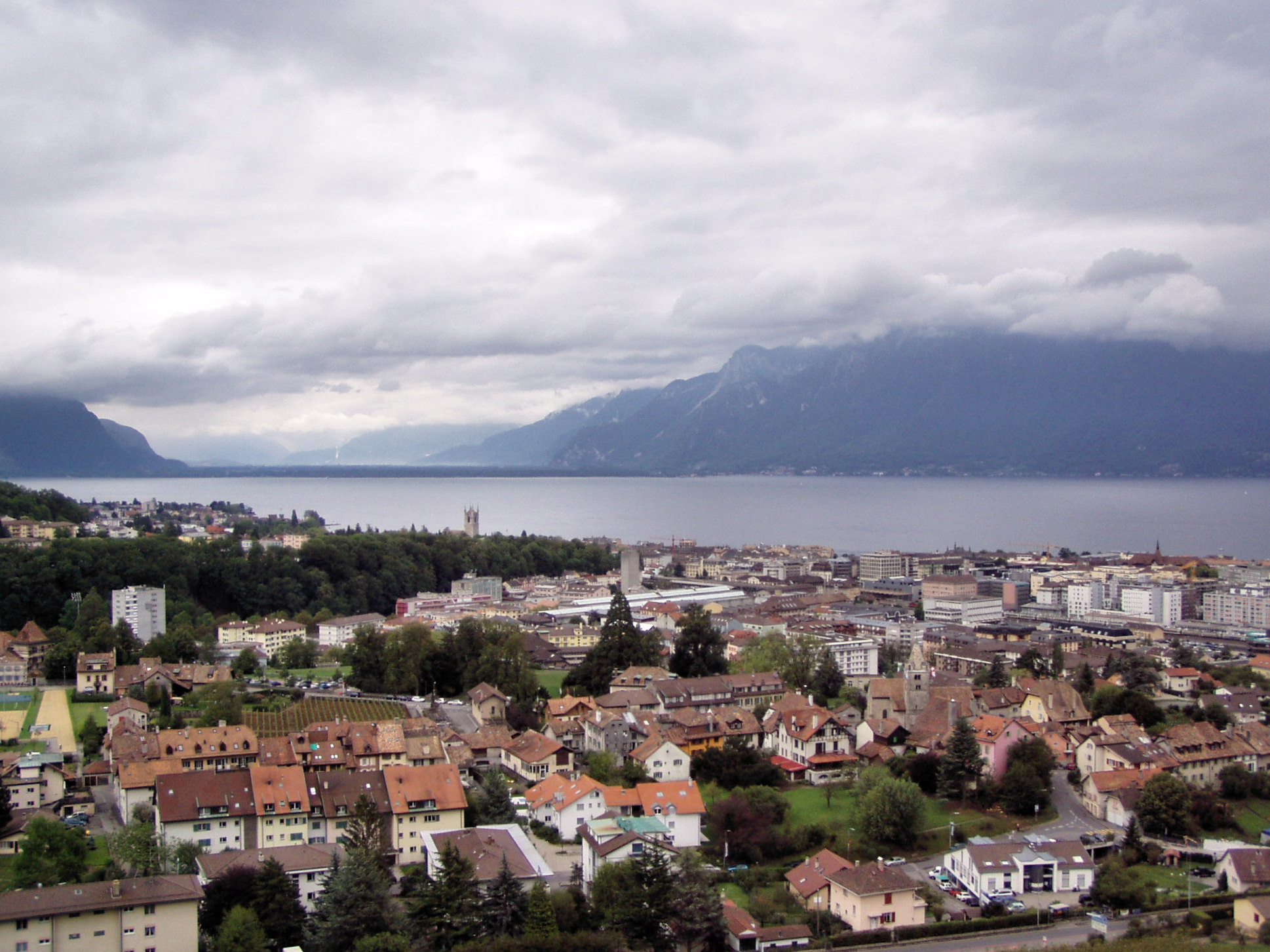 Corsier-sur-Vevey and Vevey, Switzerland - aerial view with Lake Geneva.